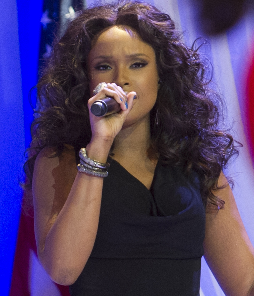 President Barack H. Obama, right, and first lady Michelle dance their first dance during a performance by Jennifer Hudson, left, at the Commander in Chief's Ball at the Washington Convention Center in Washington, D.C., Jan. 21, 2013. Obama was elected to a second four-year term in office Nov. 6, 2012. More than 5,000 U.S. Service members participated in or supported the inauguration.